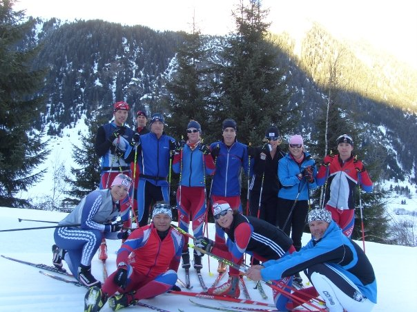 IBU-Cup Ridnaun 2009 - British Team Adele Walker, Rob Chudley, Marc Walker, Ben Woolley, Marcel Laponder, Amanda Lightfoot, Craig Driffill, Emma Fowler, Alanda Scott, Olwen Thorn, Walter Pichler, Steve Hill